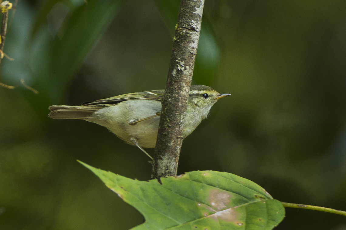 Arctic Warbler - Thailand_S4E0772